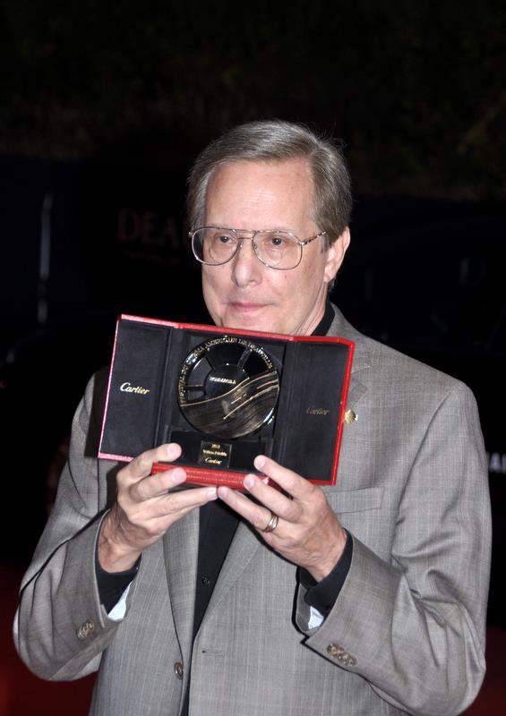 William Friedkin at the Deauville Film Festival